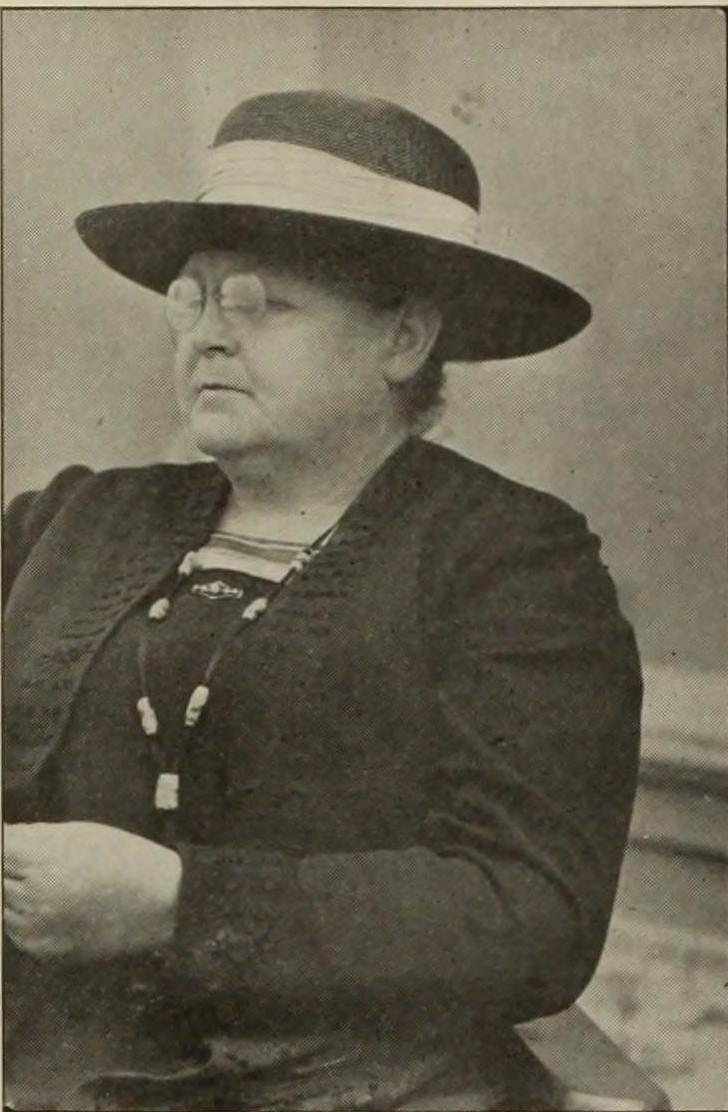 Ada Bell Maescher, Moving Picture World (Jun. 1922)